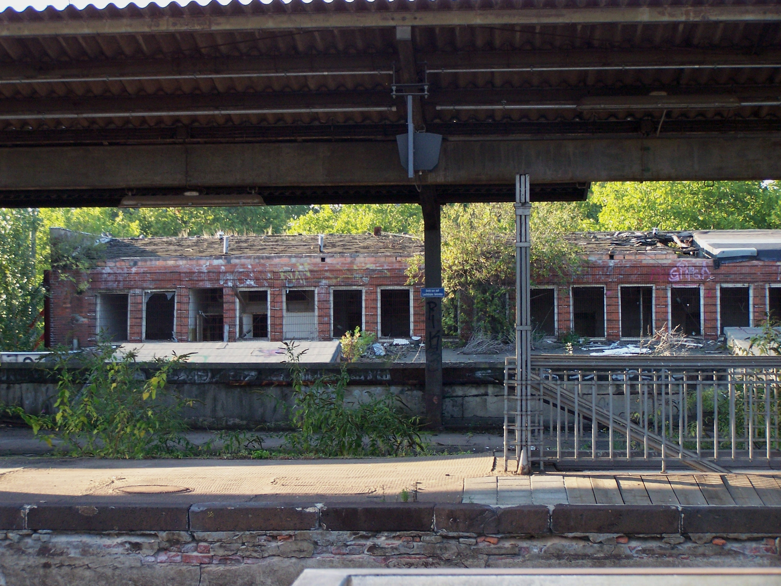 Backside of the station building of Frankfurt-East in Frankfurt-Ostend